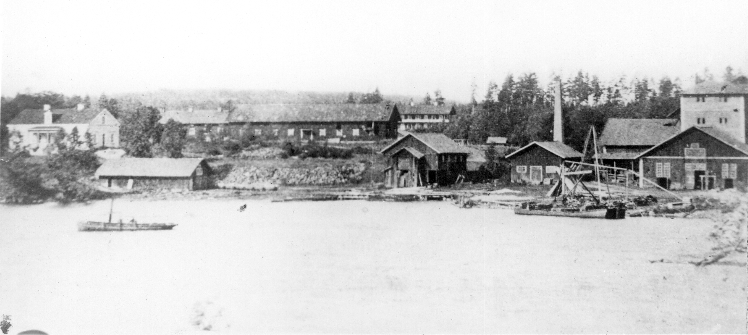 The ironworks ”Trummelsbergs bruk” in Fagersta Municipality in Västmanland, Sweden at its peak in the year approximately 1890.